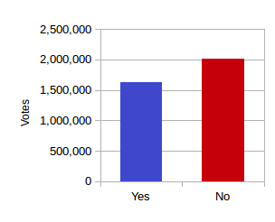 Bar chart showing the result of the independence referendum in Scotland in 2014.